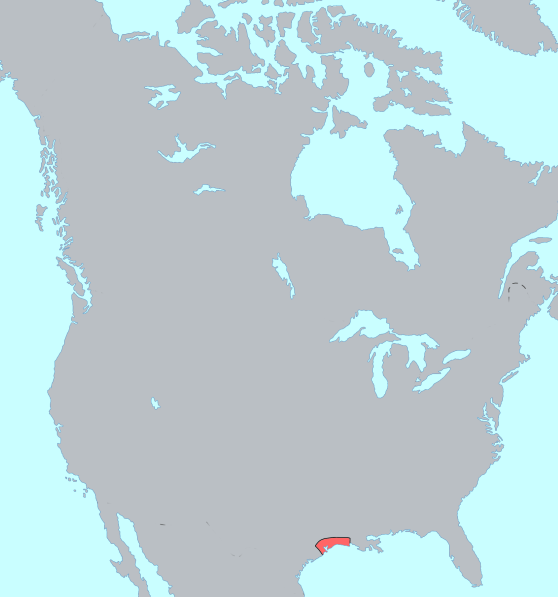 distribution of Atakapa language